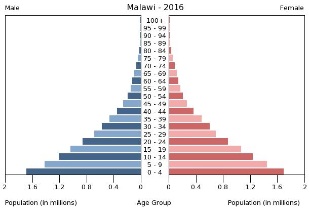 The population pyramid of Malawi illustrates the age and sex structure of population and may provide insights about political and social stability, as well as economic development. The population is distributed along the horizontal axis, with males shown on the left and females on the right. The male and female populations are broken down into 5-year age groups represented as horizontal bars along the vertical axis, with the youngest age groups at the bottom and the oldest at the top. The shape of the population pyramid gradually evolves over time based on fertility, mortality, and international migration trends.